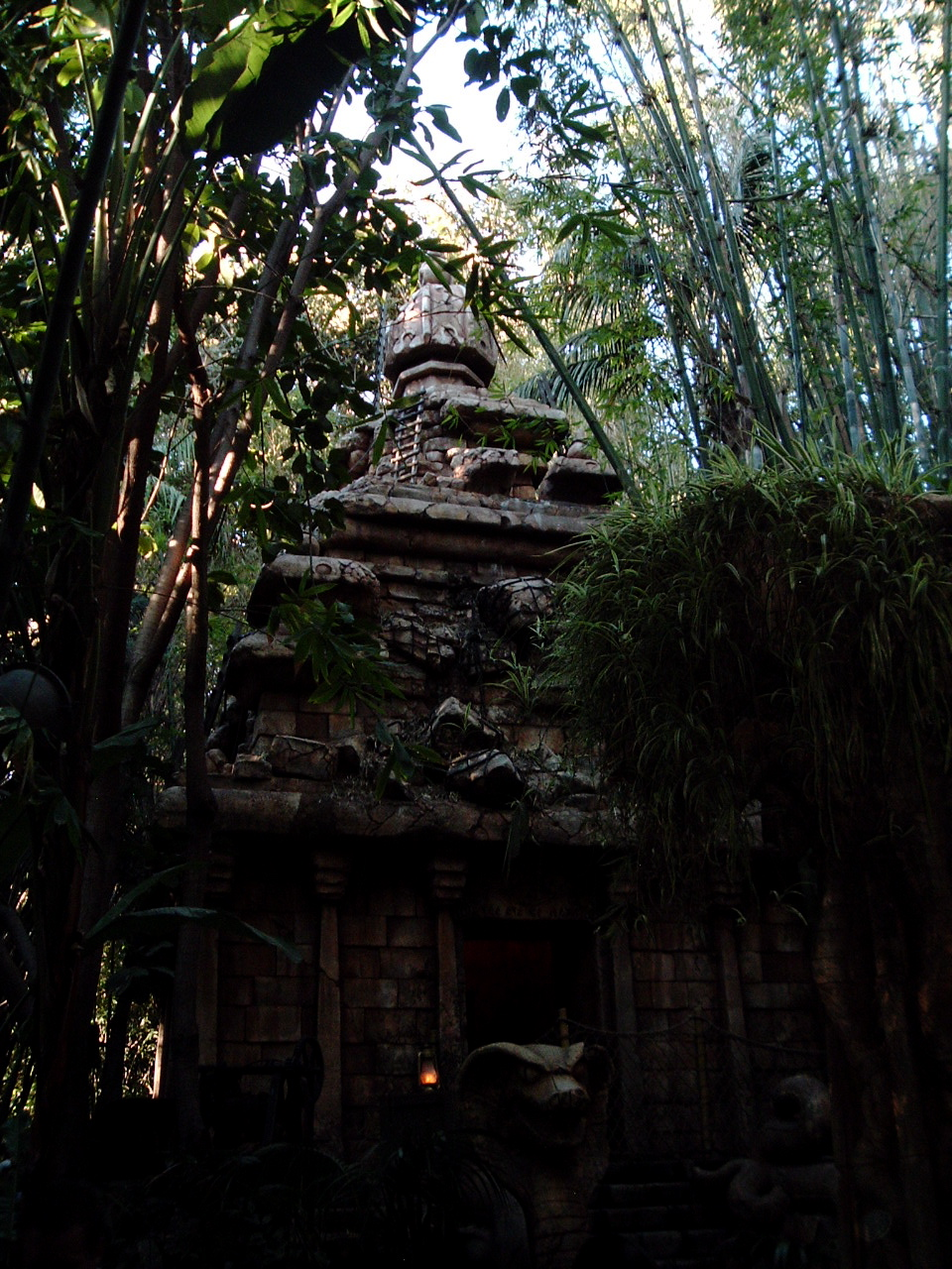 Exterior of the que for Disneyland's Indiana Jones Adventure: Temple of the Forbidden Eye